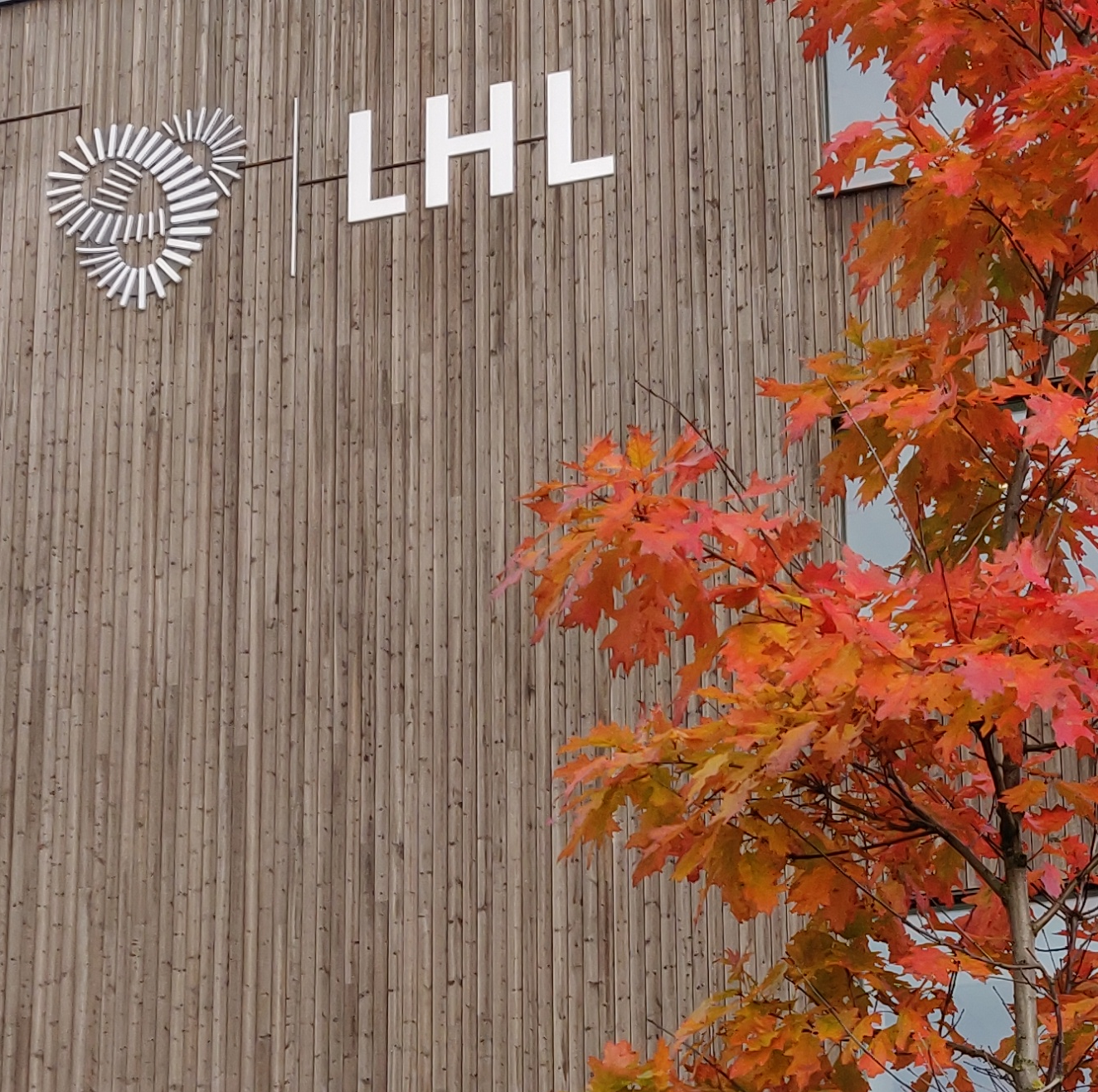 Gardermoen Campus which contains the hospital for the Norwegian organization "Landsforeningen for hjerte- og lungesyke" at Gardermoen in Ullensaker